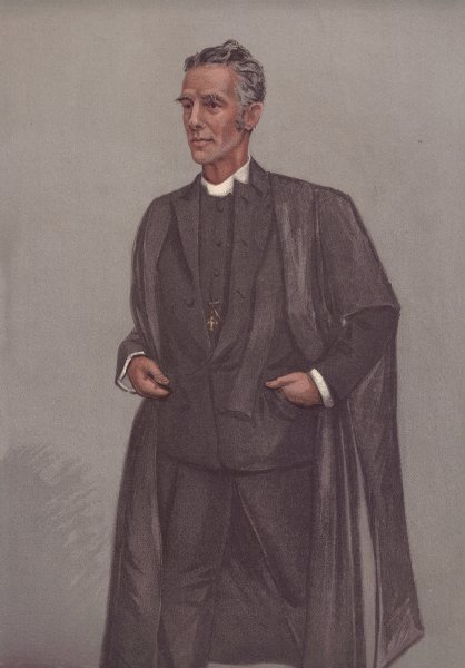 Caricature of Reverend Canon Edward Lyttelton. Caption read "Haileybury".